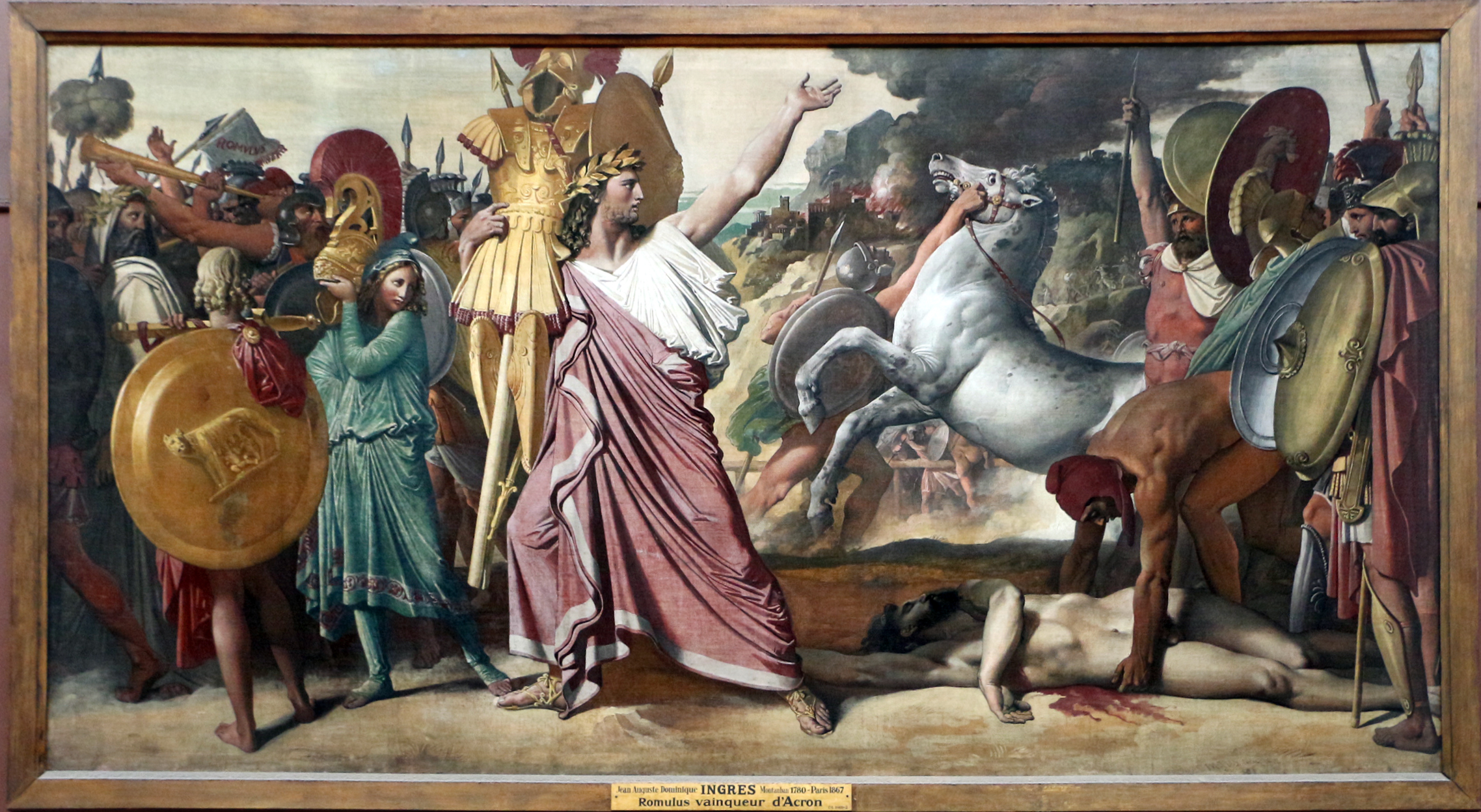 Paintings by Jean-Auguste-Dominique Ingres in the Louvre